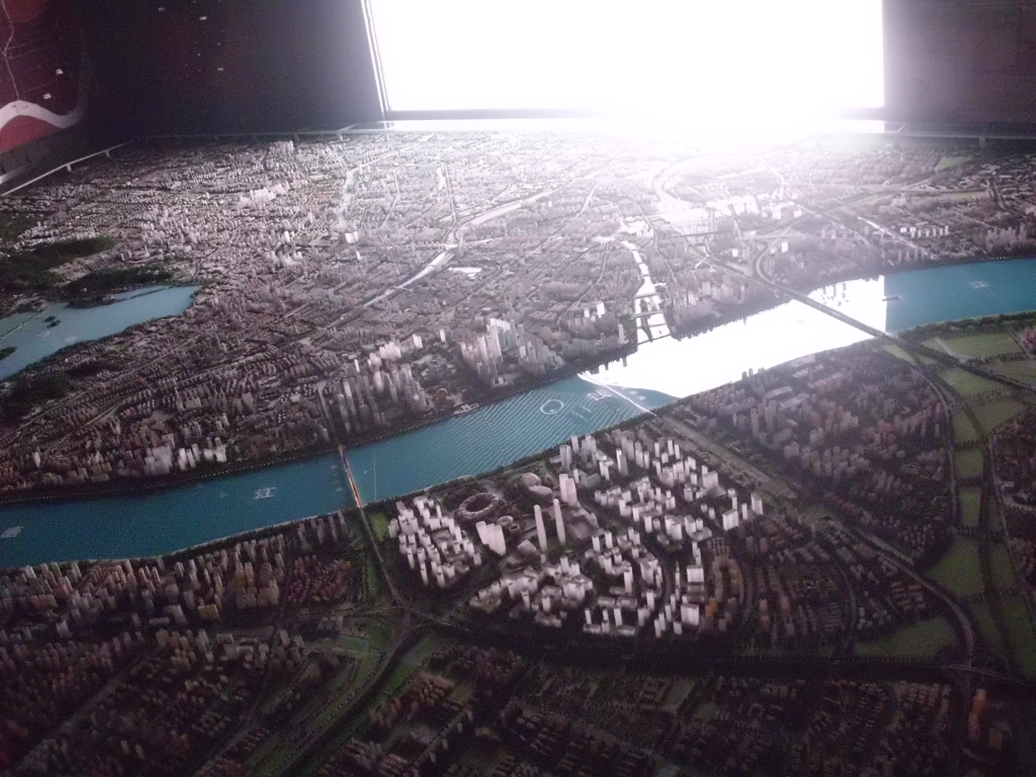 Hangzhou Urban Planning Exhibition Hall